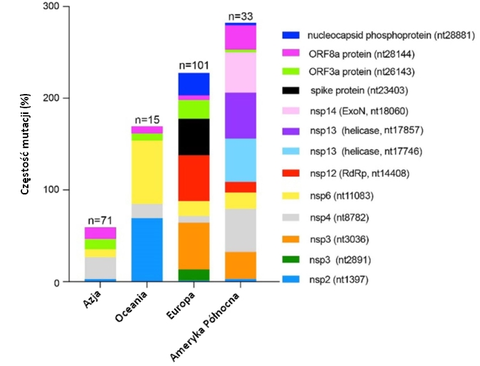 SARS-CoV-2 virus replication process. Translated from English original